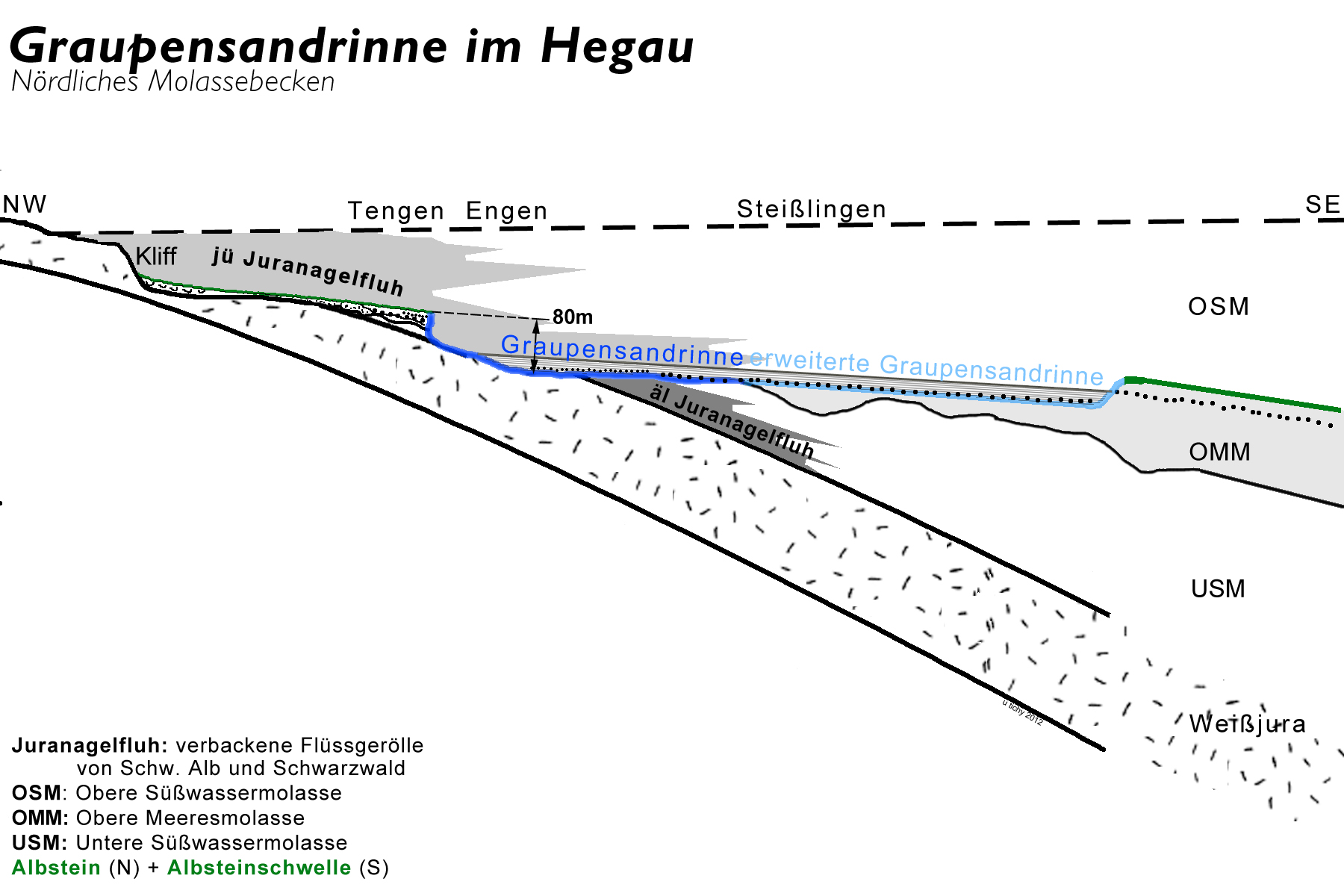 Geological section of the Hegau area (North Alpine Foreland Basin, South-West Germany), showing the miocene “Graupensandrinne” incised valley structure. The paleo-valley has a width of about 10 km. The valley incision caused a significant stratigraphic gap (hiatus) within the sedimentary succession of the Alpine Molasse: Drawing based upon data given by A. Schreiner, 1970, LGRB Baden-Wurttemberg